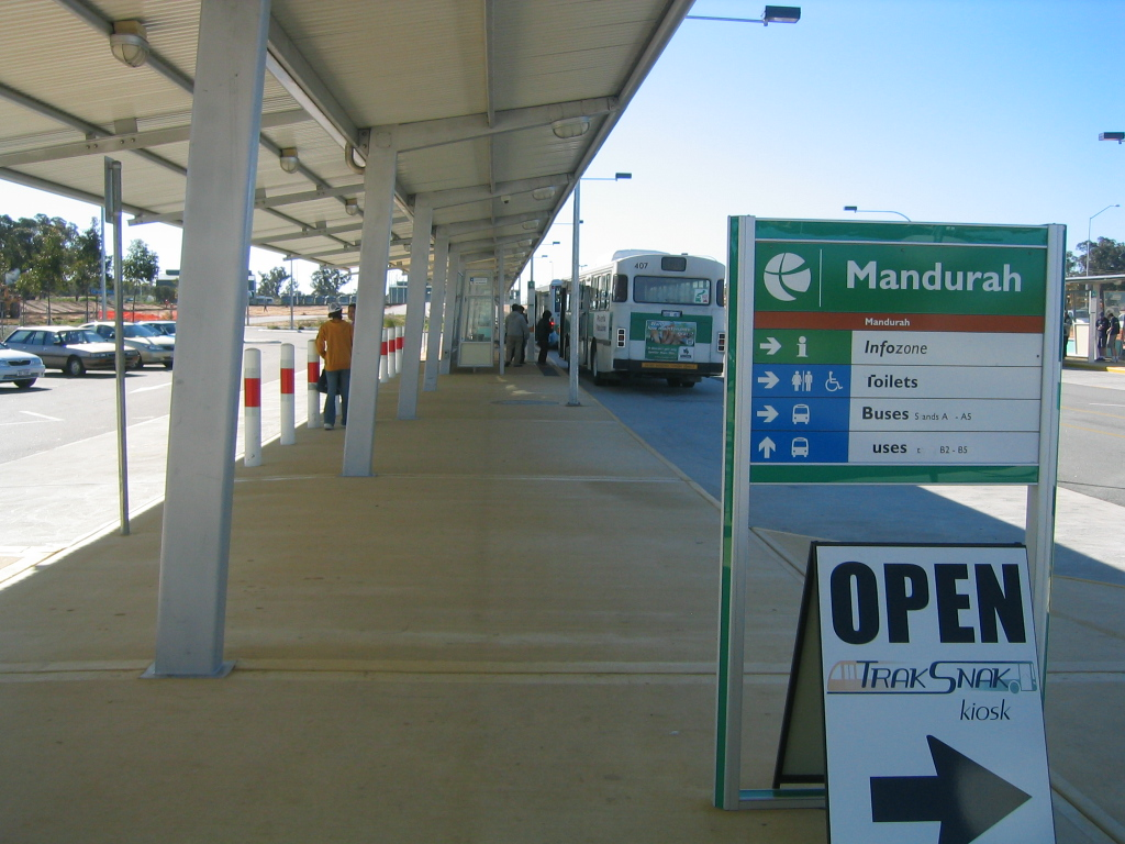 Transperth Mandurah Bus Station